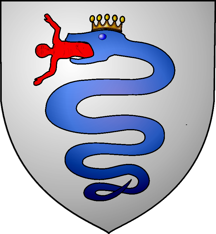 CoA of Visconti , Dukes of Milan. Famous serpent devouring a child.